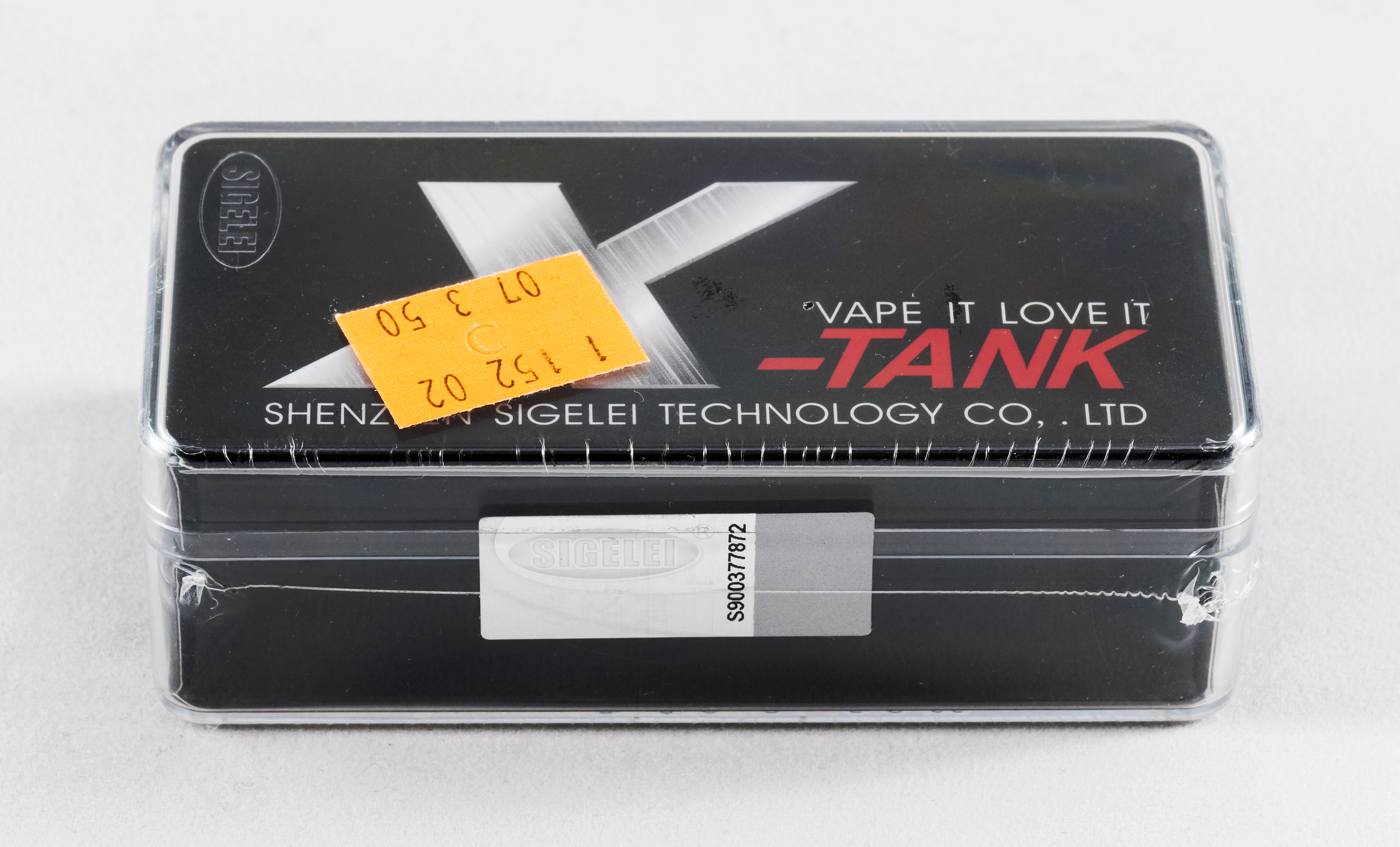 Sigelei X-Tank atomizer in package